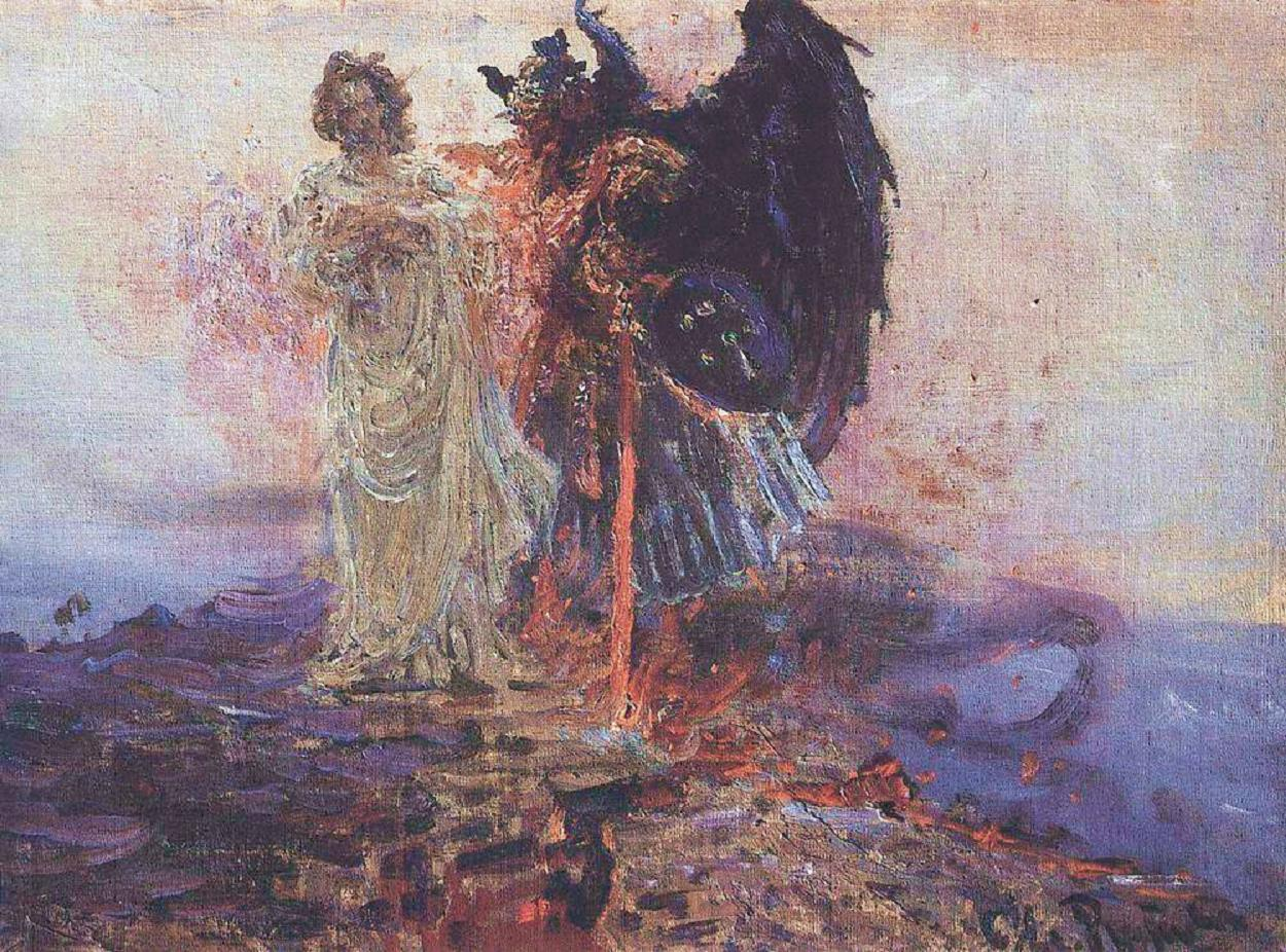 “Get Behind Me, Satan!” by Ilya Repin.